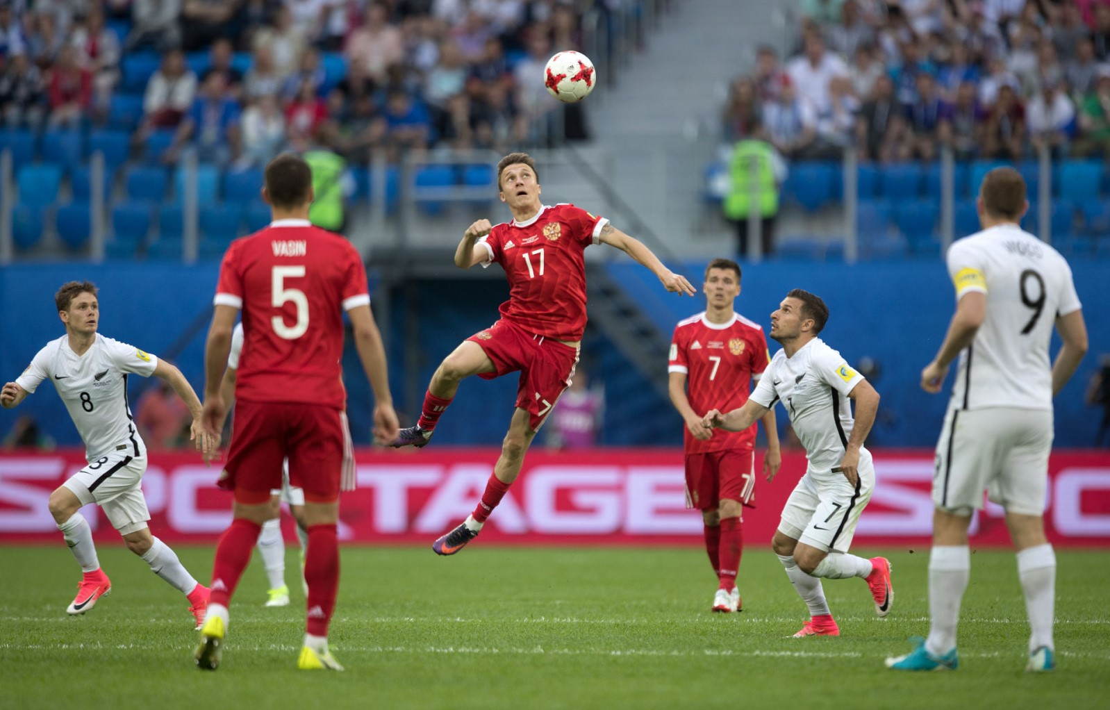 Aleksandr Golovin Kosta Barbarouses